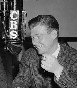 Arthur Godfrey at CBS microphone, 1938